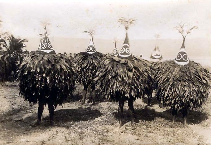 Tolai people, Gazelle Peninsula of New Britain, Papua New Guinea: Duk-Duk dancers; the Duk-Duk is a secret society of men, also present on neighbouring New Ireland Island (1913, original photograph).